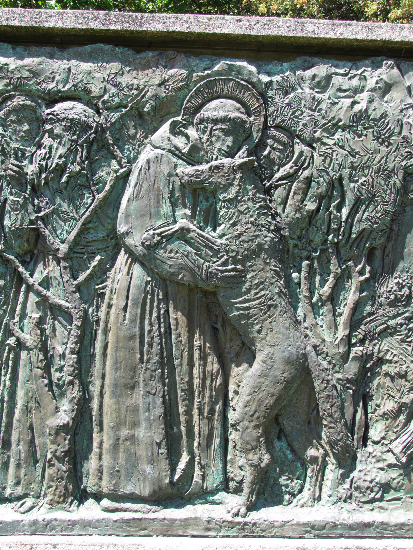 Francis of Assisi and the Wolf of Gubbio : Santa Maria della Vittoria (Gubbio)